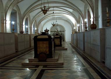 Pantheon of the Kings of the House of Bragança in Lisbon.